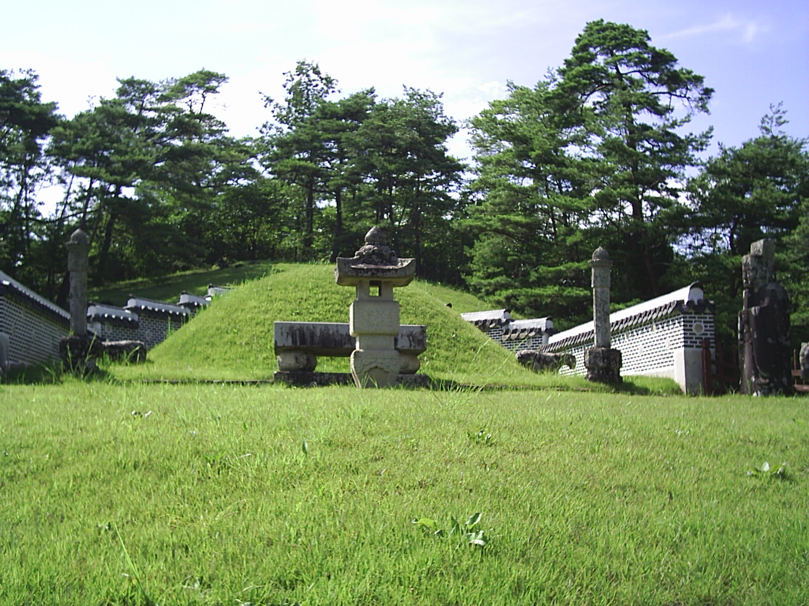 The Jangreung, the grave of Danjeong